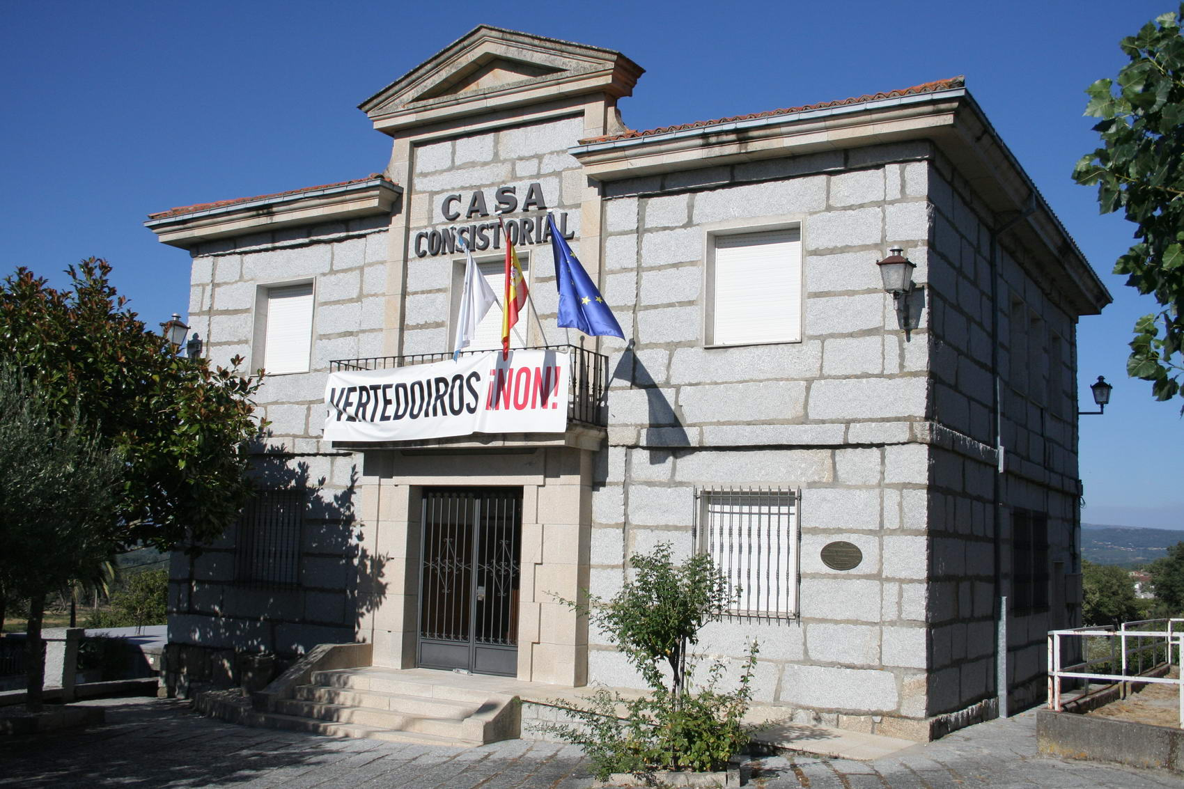 Town Hall in Taboadela (Spain)